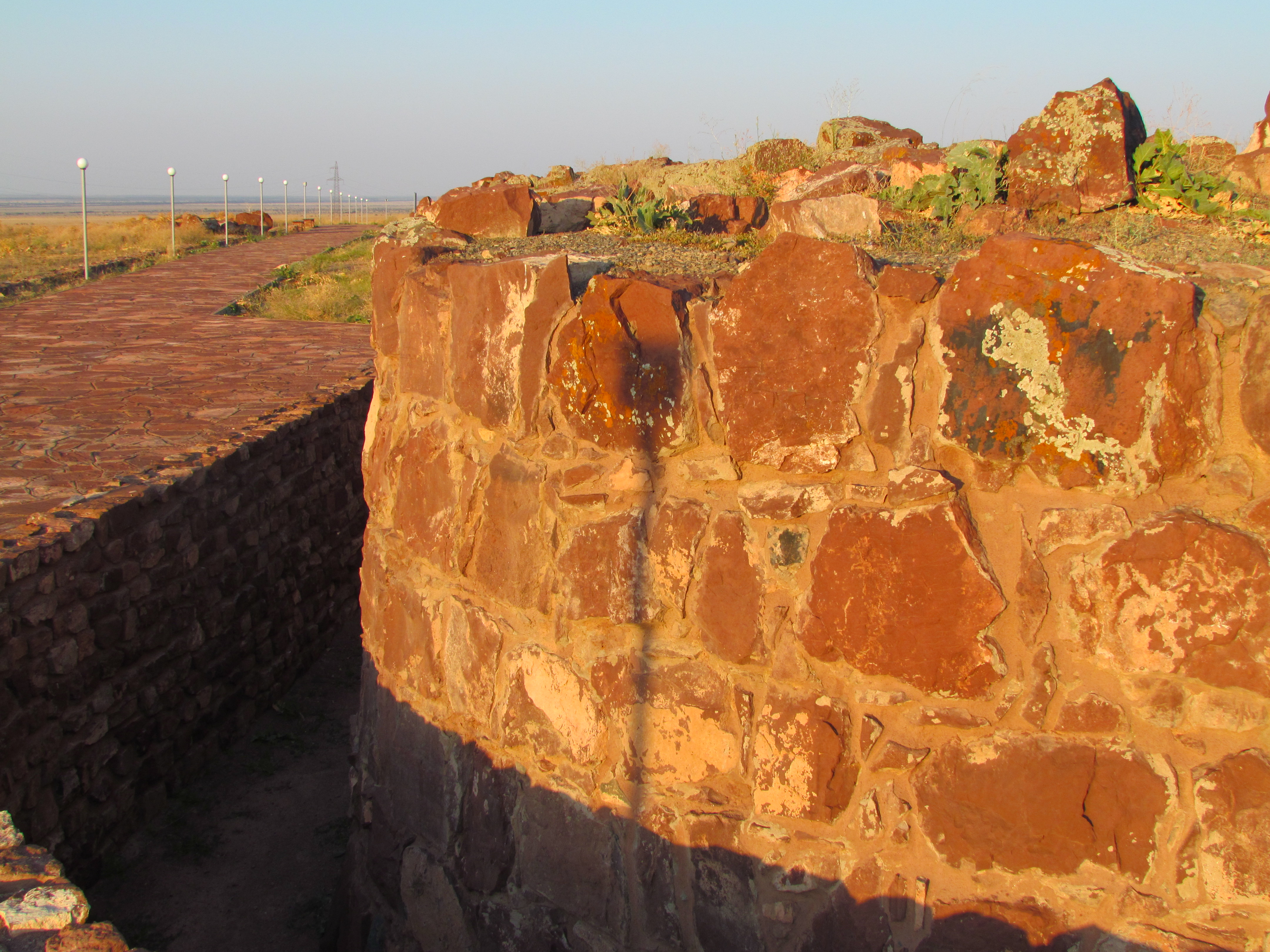 Akyrtas